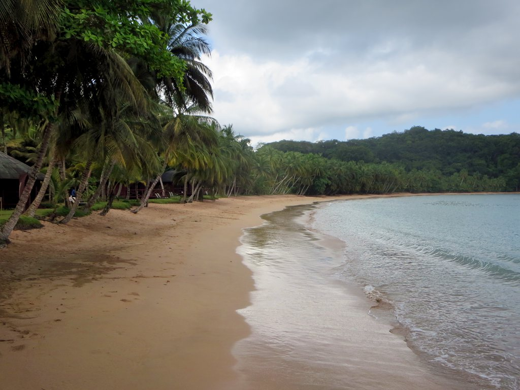 Palm fringed Praia de Coco is favored by swimmers at Bom Bom Island Resort on Principe Island, São Tomé and Príncipe.